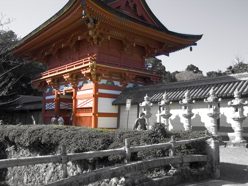 Nanguh-taisya(南宮大社) shrine in Taruityoh,GifuNanguh shrine(4)